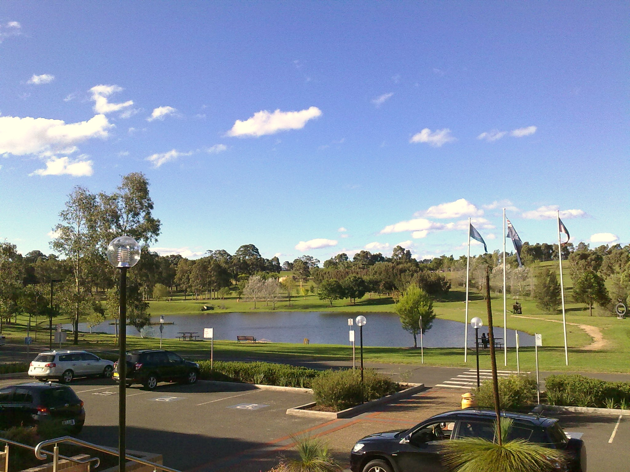 UWS Campbelltown in March, looking towards a lake at sunset.